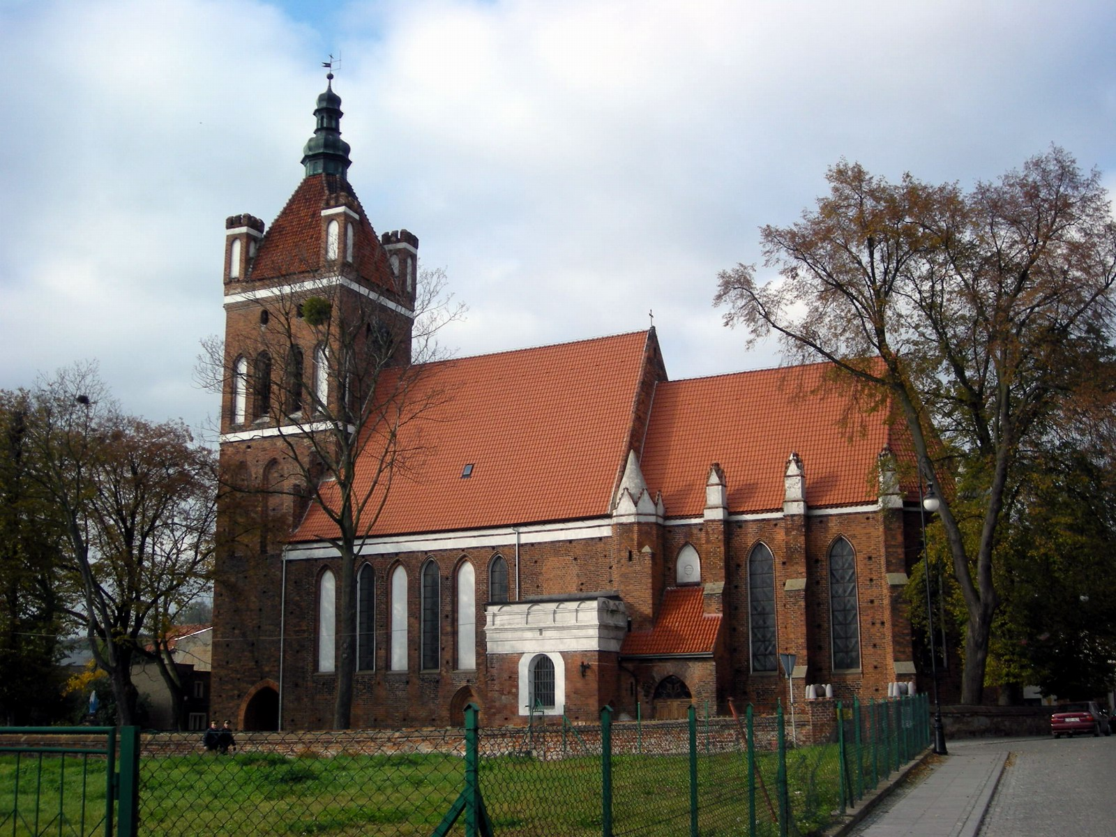 The church in Golub-Dobrzyń, Poland.